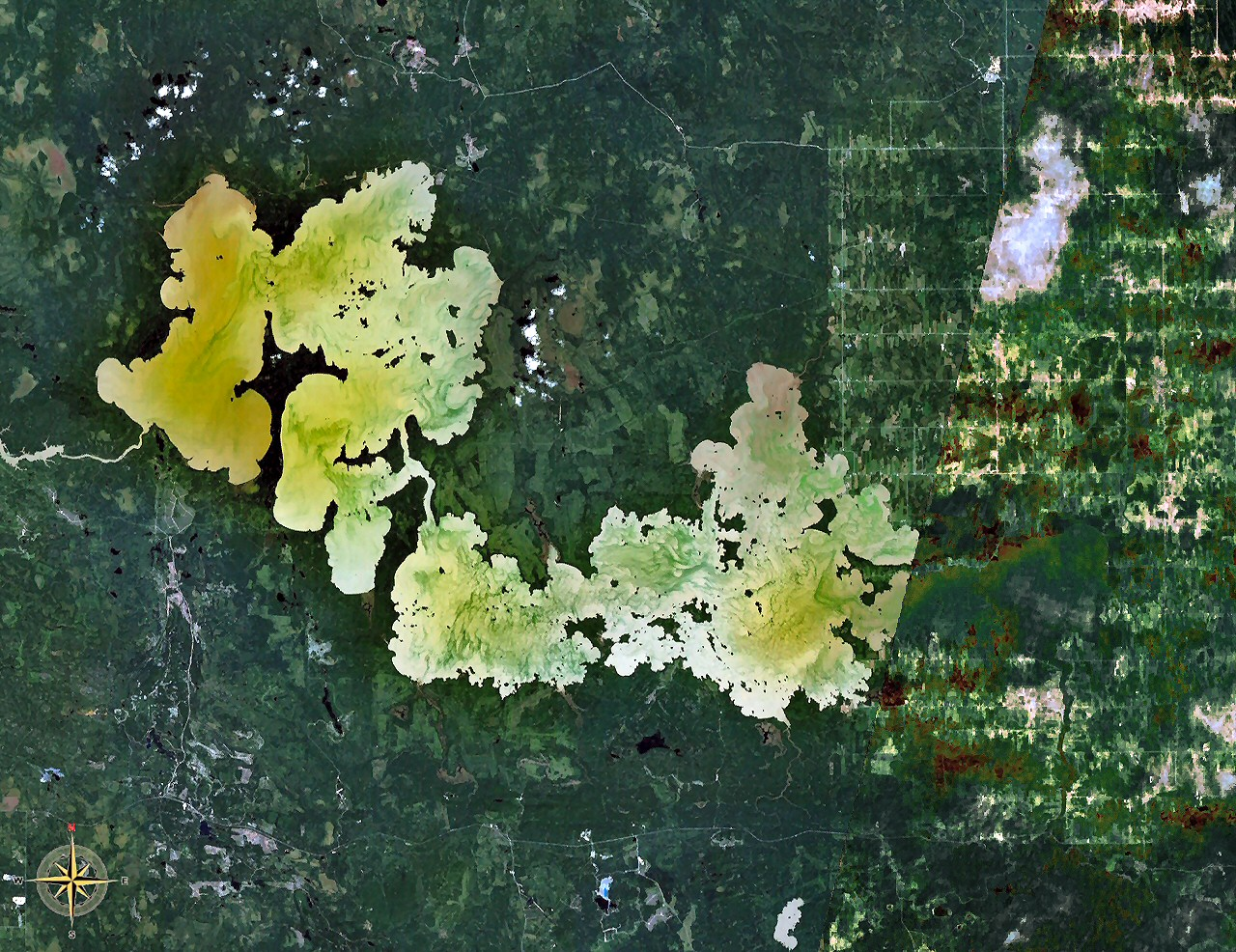 Lake Abitibi, Ontario and Quebec, Canada. The border between the 2 provinces is visible as a vertical line between undeveloped terrain in Ontario and the rectangular agricultural patterns in Quebec (the right/east third of photo).